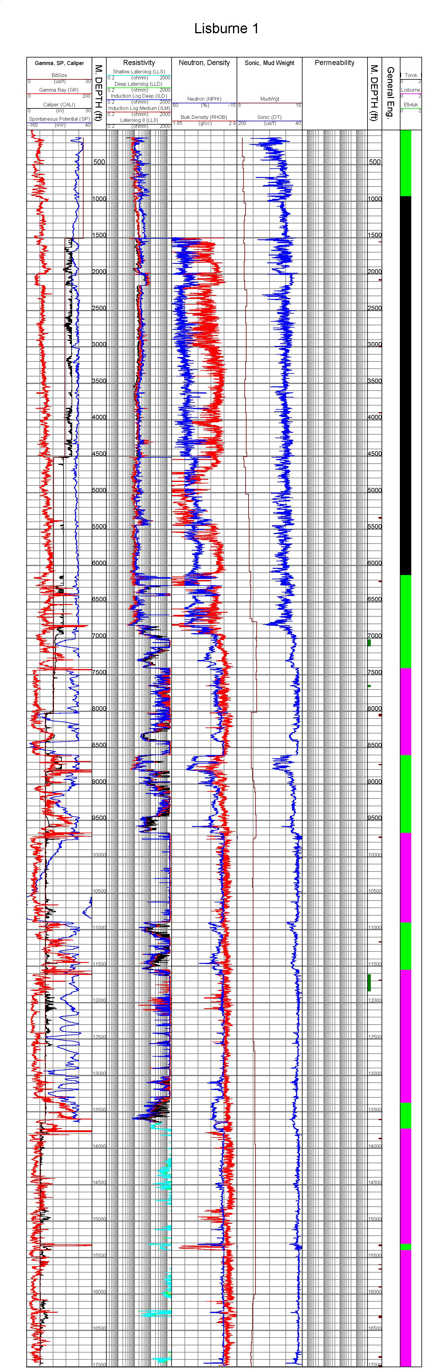 Wireline log composite for the Lisburn 1 well, drilled by Husky Oil in the Alaska Petroleum Reserve, between June 1979 and May 1980